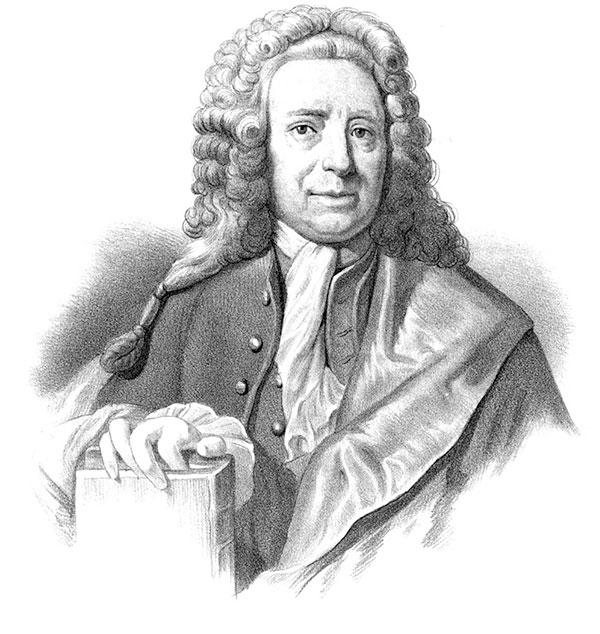 Olof Rudbeck d.y. (1660-1740)